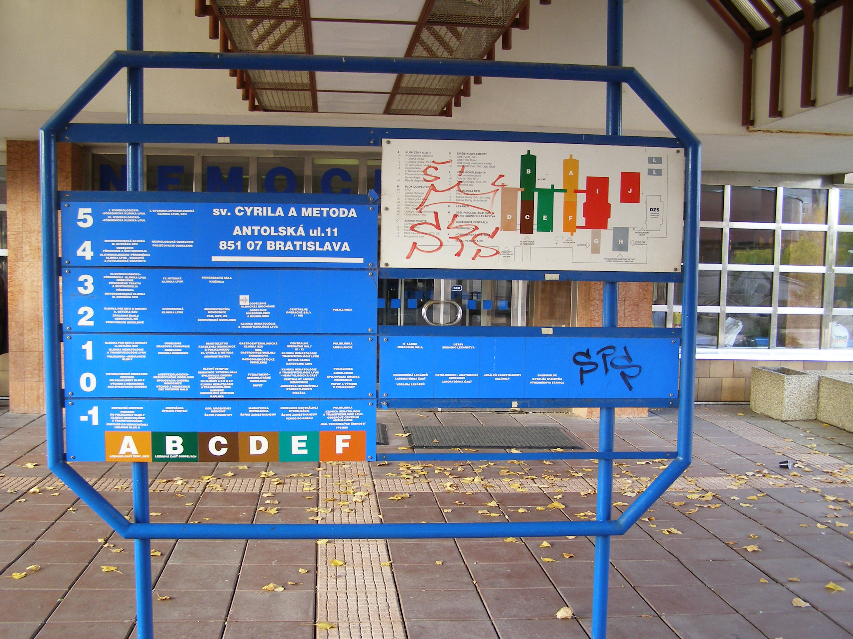 Informations in front of St. Cyril and Method Hospital in Petržalka, Bratislava, Slovakia